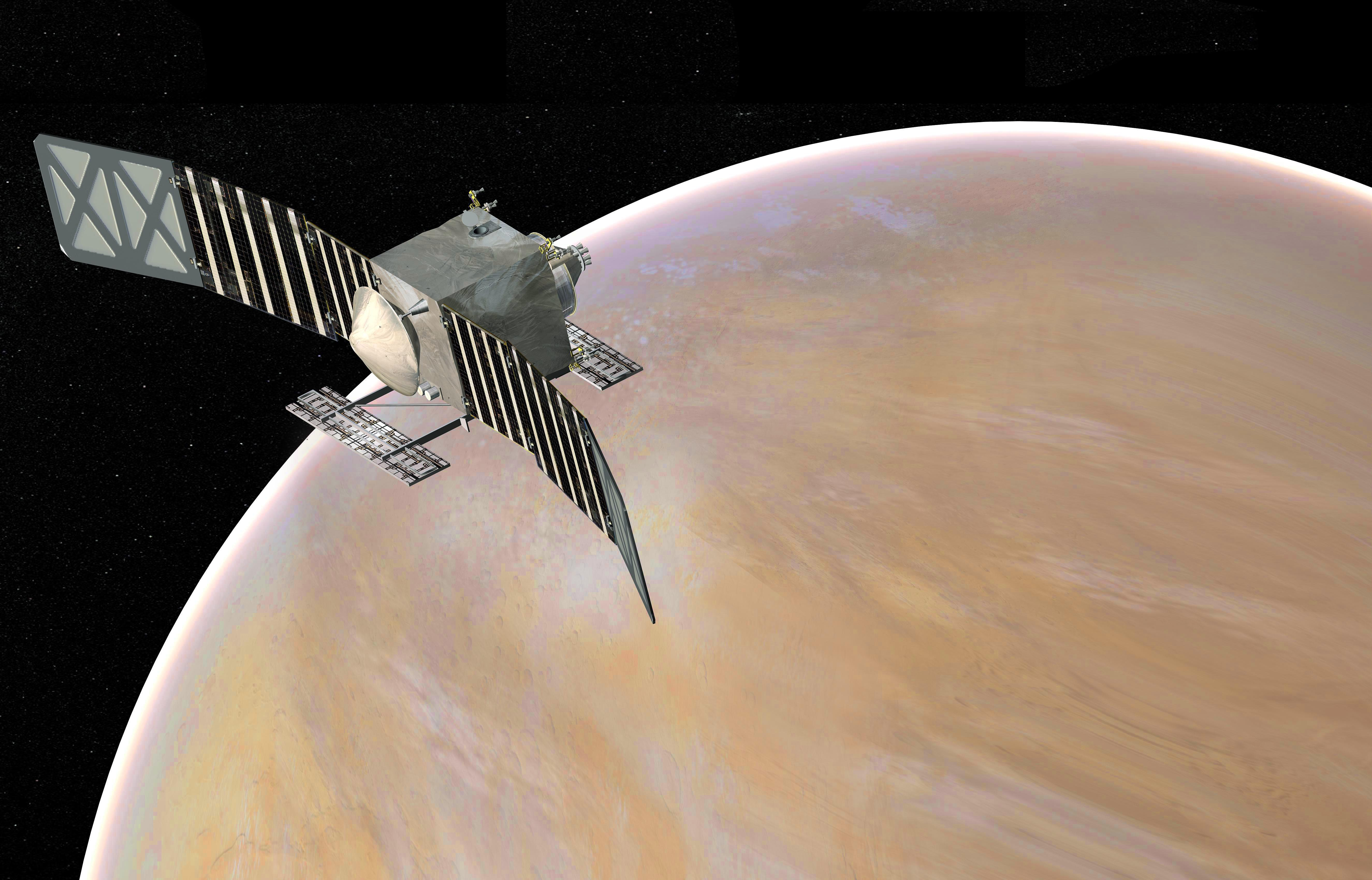 from website "Artist's concept of the Venus Emissivity, Radio Science, InSAR, Topography, and Spectroscopy (Veritas) spacecraft, a proposed mission for NASA's Discovery program. Image credit: NASA/JPL-Caltech"